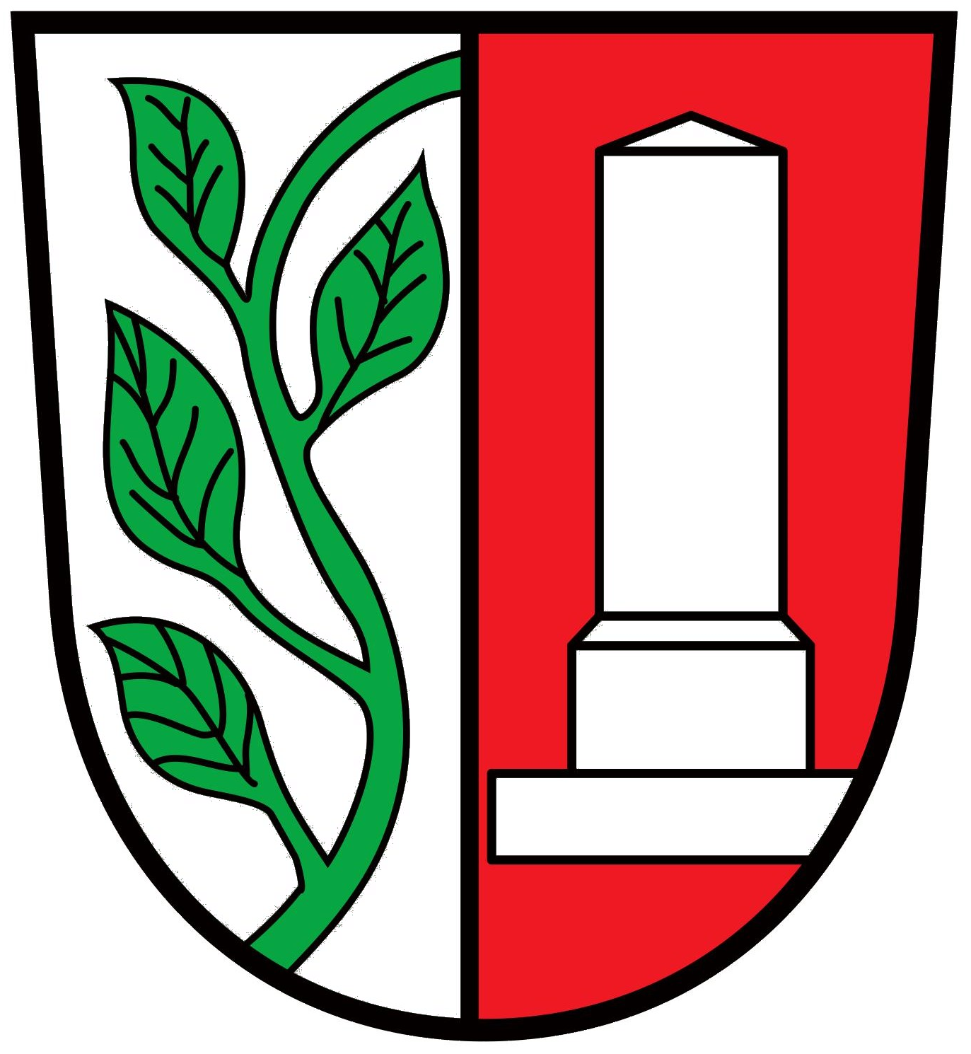 Coat of Arms of Denkendorf